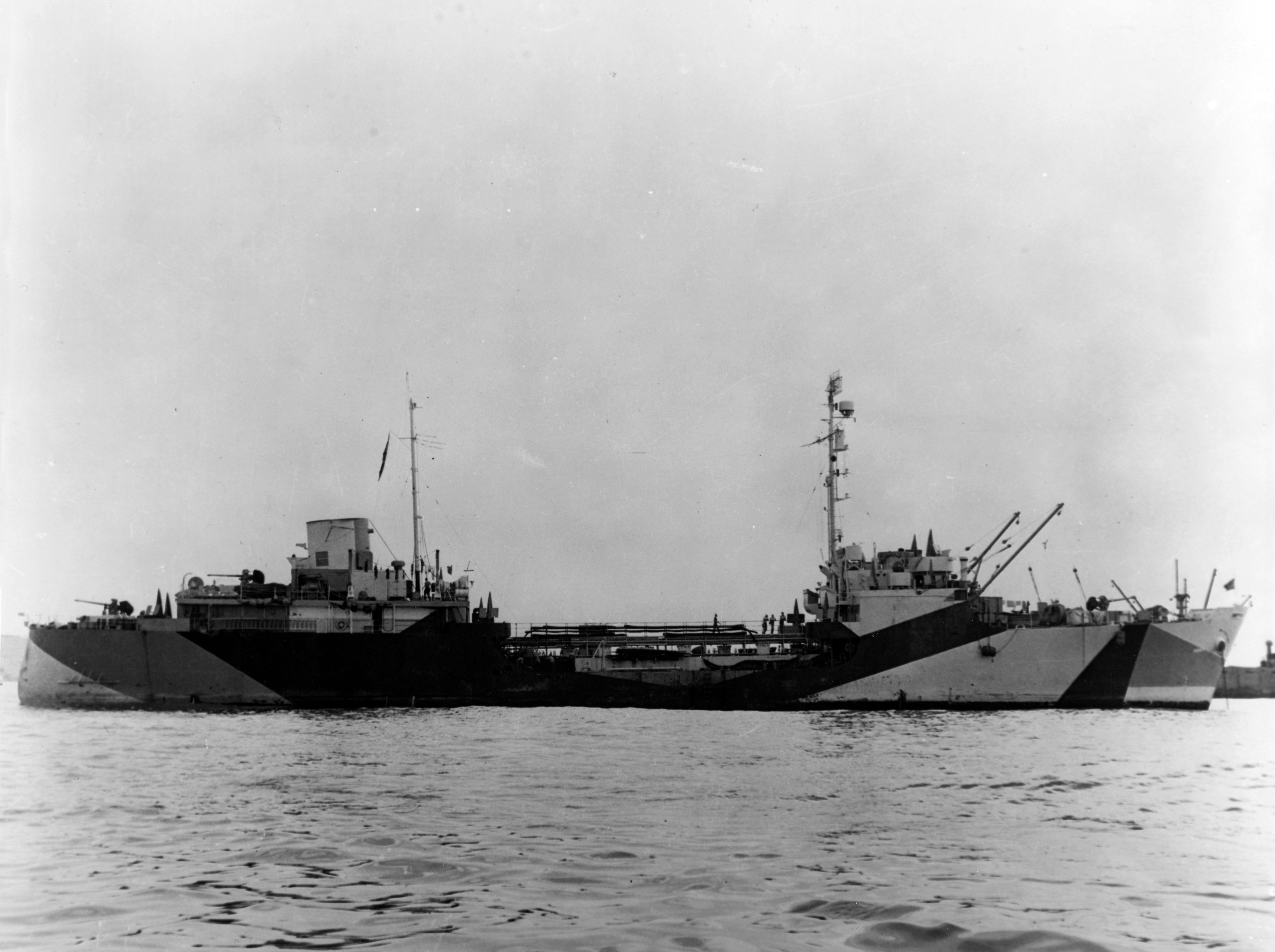 The U.S. Navy gasoline tanker USS Wabash (AOG-4) on 23 October 1944. Between August 1944 and March 1945, she operated in the Marianas. She is painted in Camouflage Measure 32, Design 2AO.